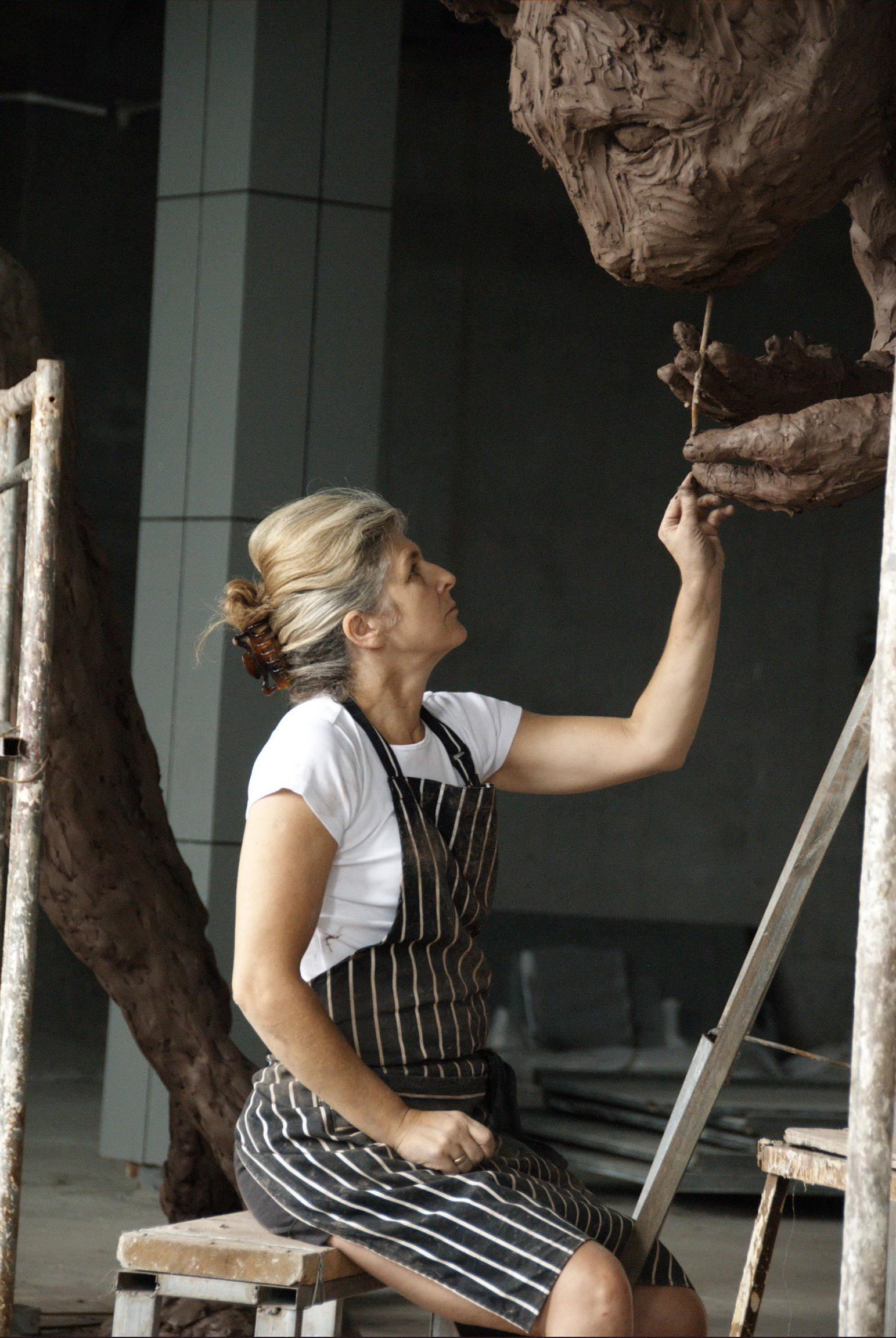 Laura Ford, China Cats Commission by Shanghai Sculpture Park, 2012